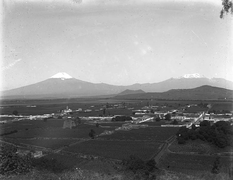 View of the Puebla Valley in Mexico, with the volcanoes Popocatépetl and Iztaccíhuatl in the distance.